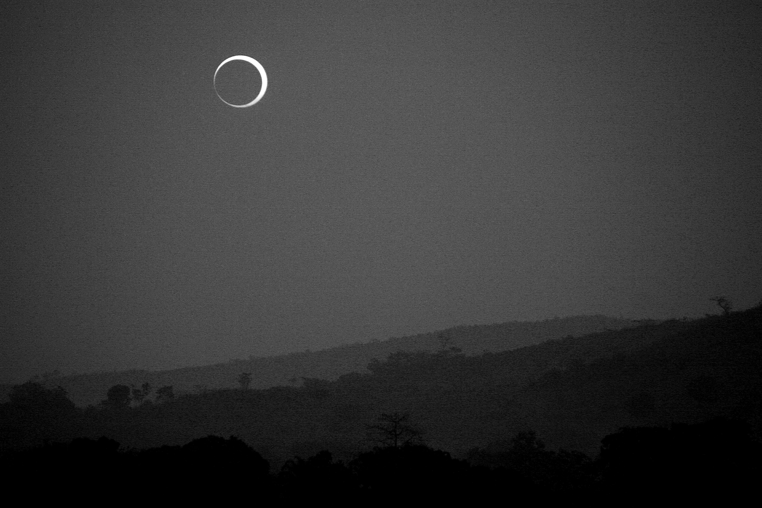 Solar annular eclipse of January 15, 2010 as seen in Bangui, Central African Republic at 05:19:14 GMT (6:19 local time)